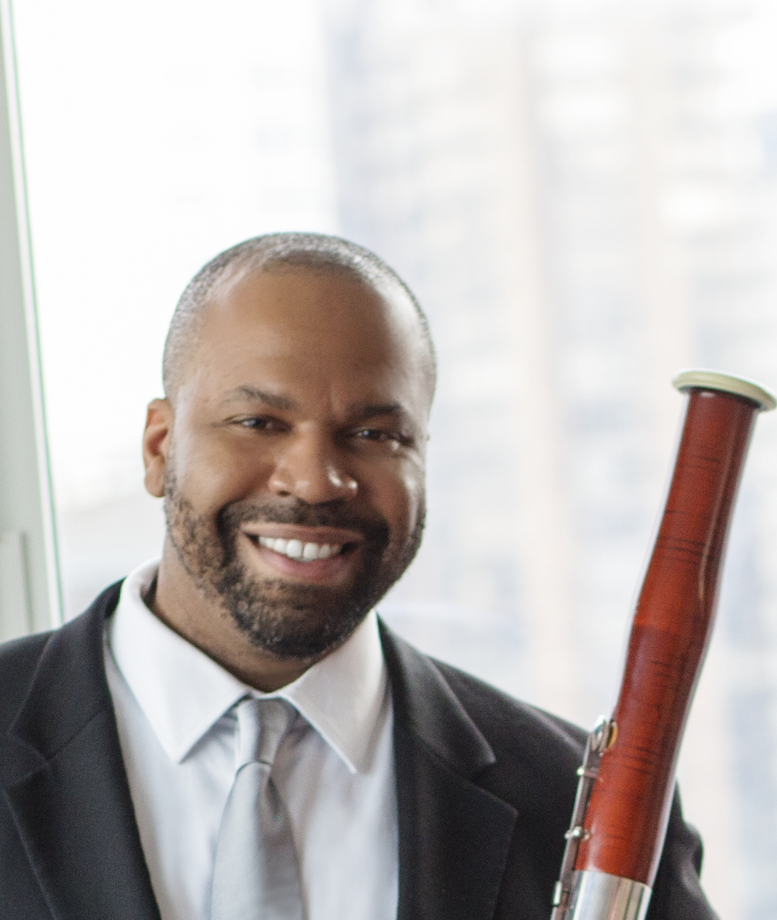 Photo of Bryan Young, American bassoonist and software entrepreneur, member of the Poulenc Trio